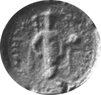 Seal of Serbian King Stefan Radoslav, dated 4 February 1234.